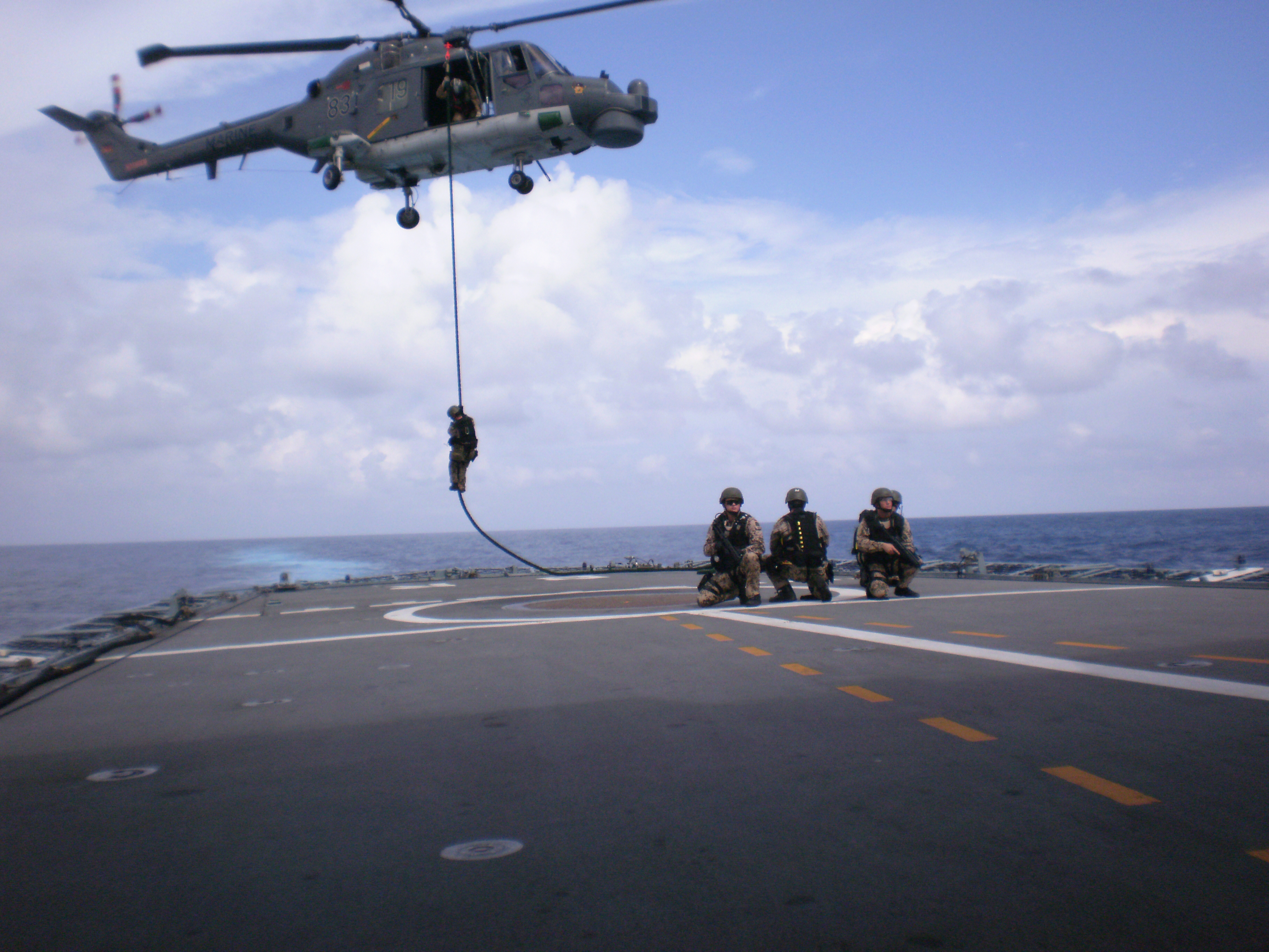 Fast Roping Exercise aboard FGS BREMEN 2009 during Operation ATALANTA 2009